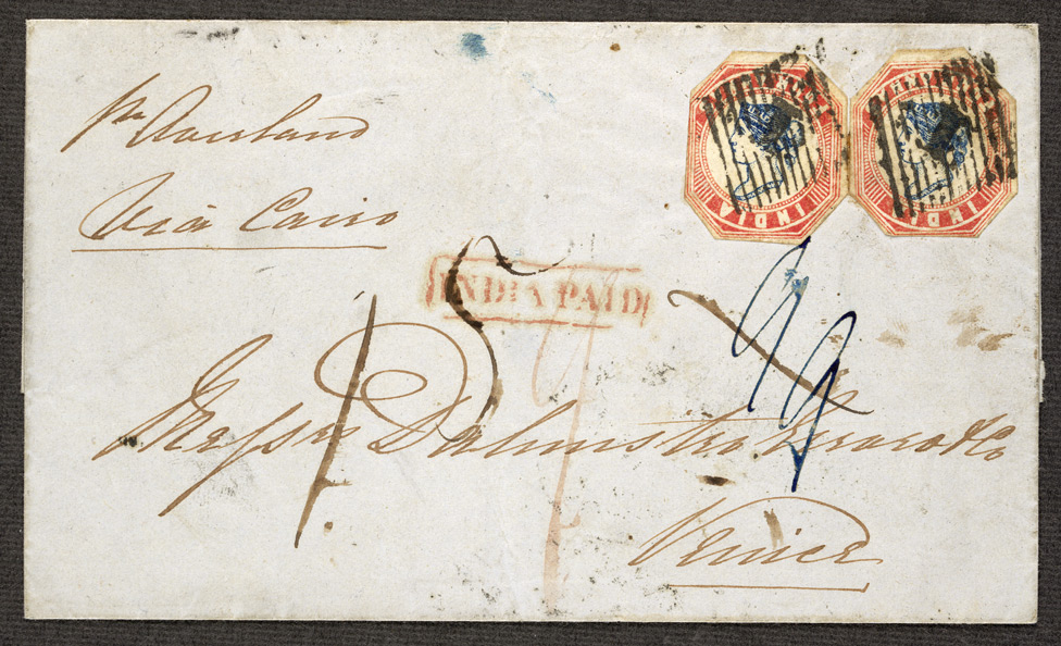 Lithograph titled, "India: 1854 4 annas blue and pale red, error head inverted, two used on cover."